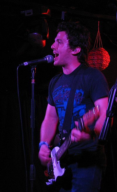 Justin Moore of Ingram Hill at The Saint, Asbury Park, NJ, June 26, 2011.